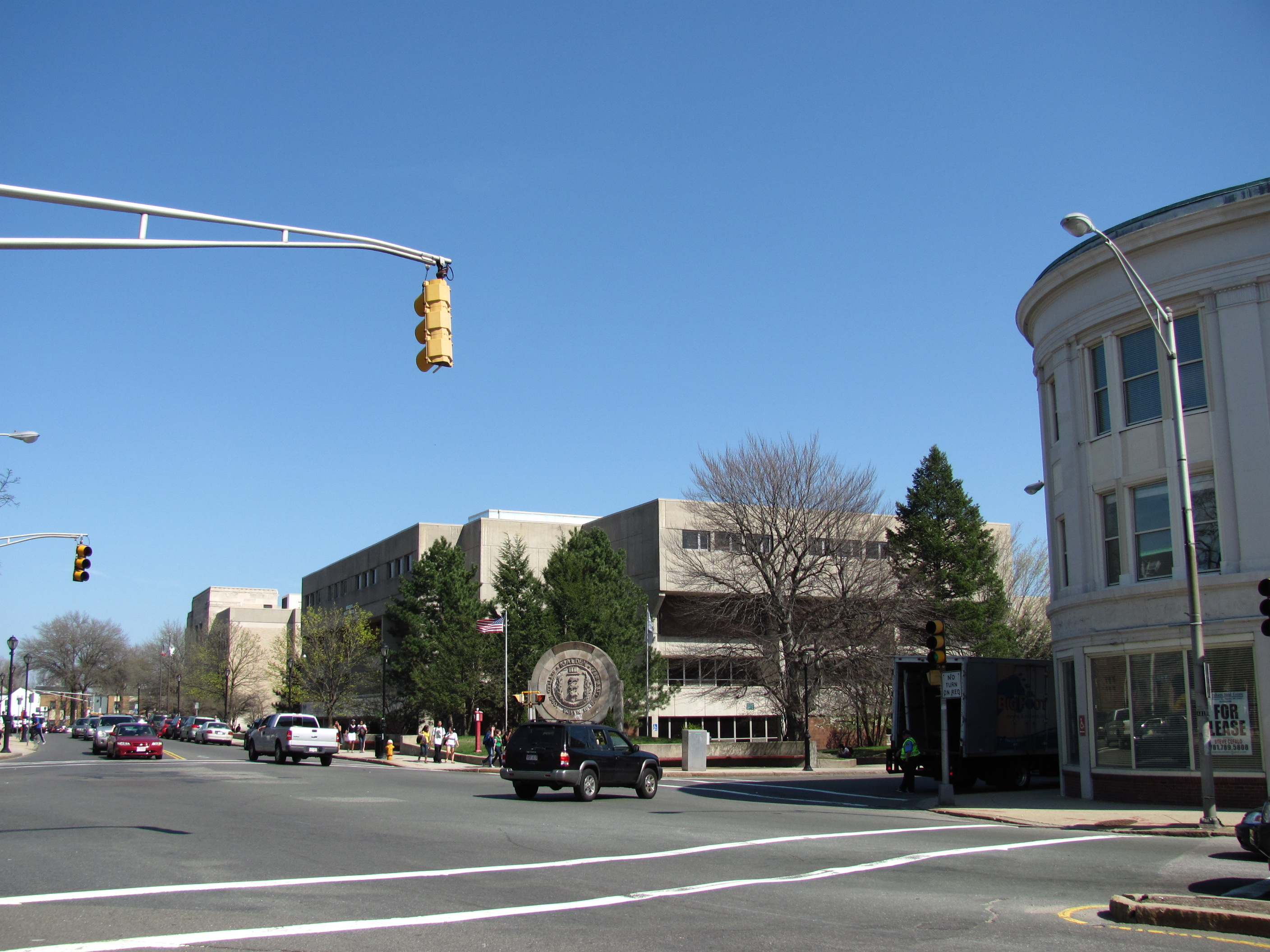 Intersection of Main, Salem, and Ferry Streets looking towards Malden High School in Malden Massachusetts